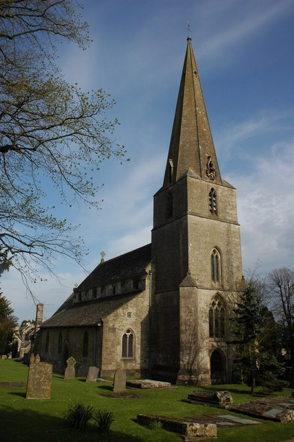 Bisley Church All Saints church at Bisley was mostly rebuilt in the early 1860s, however, it may have originally been an Anglo-Saxon minister.